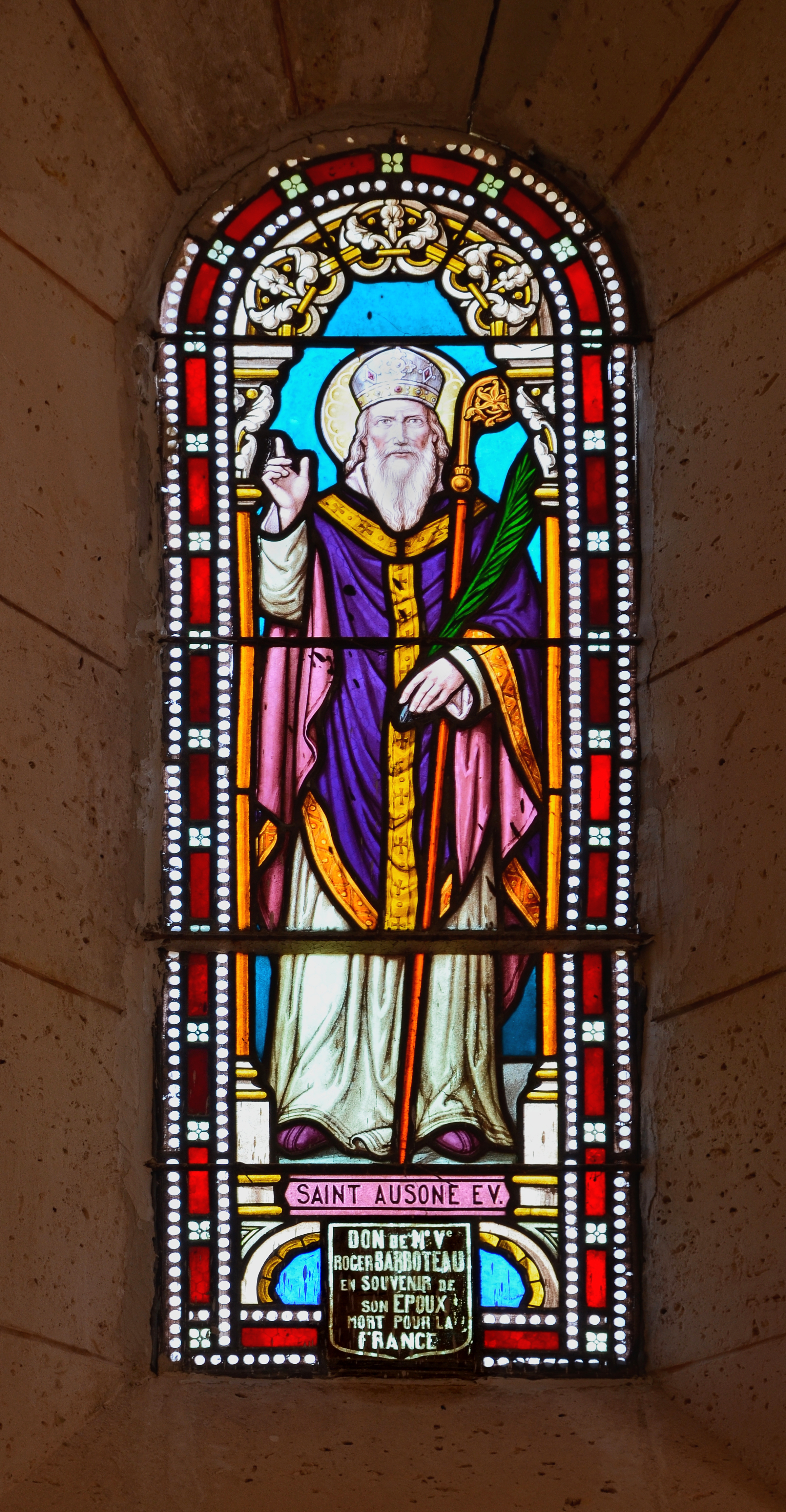 Stained glass window depicting Saint Ausone, church of Deviat, Charente, France.